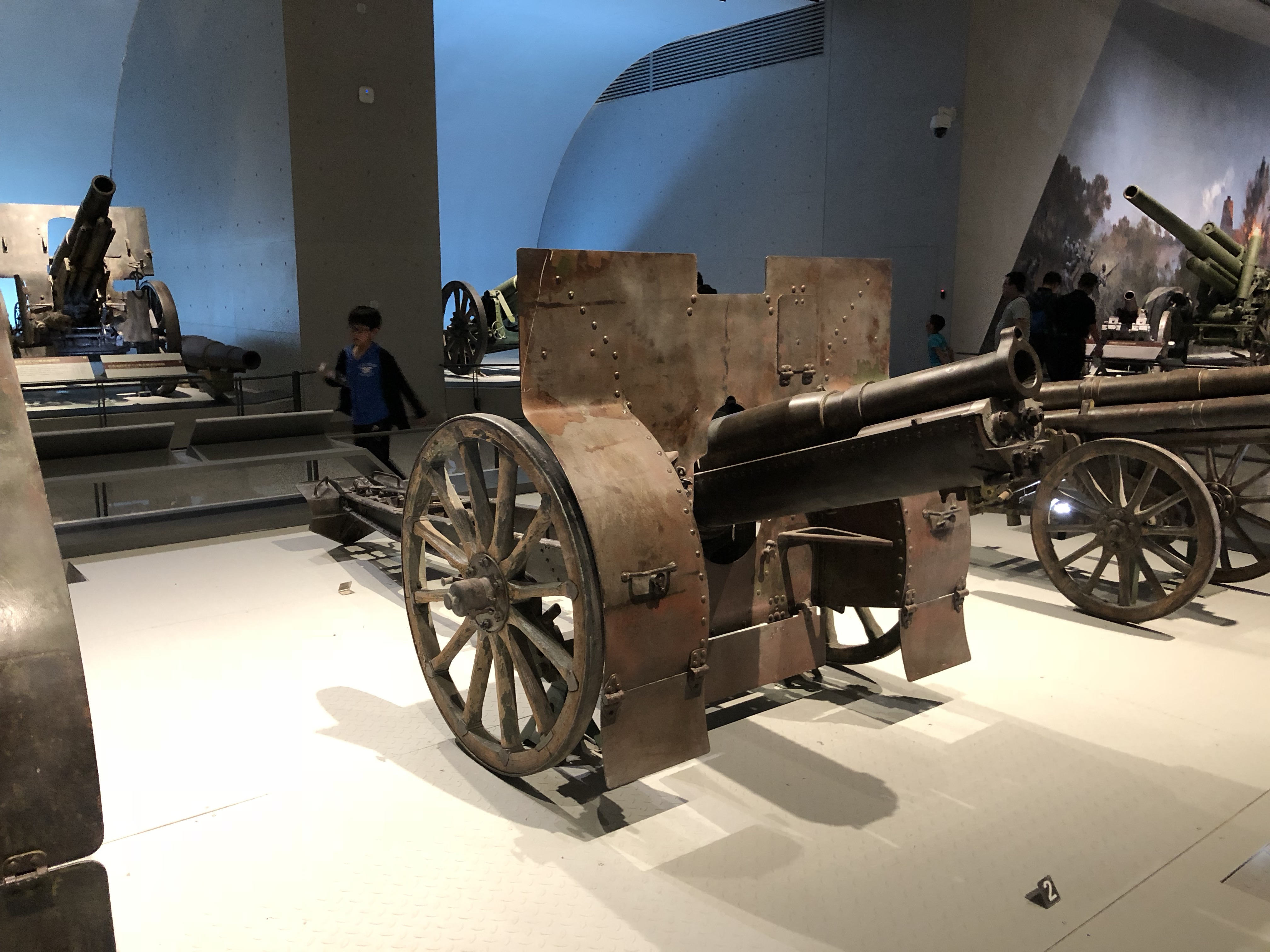 Schneider extra léger light gun.Display on Beijing